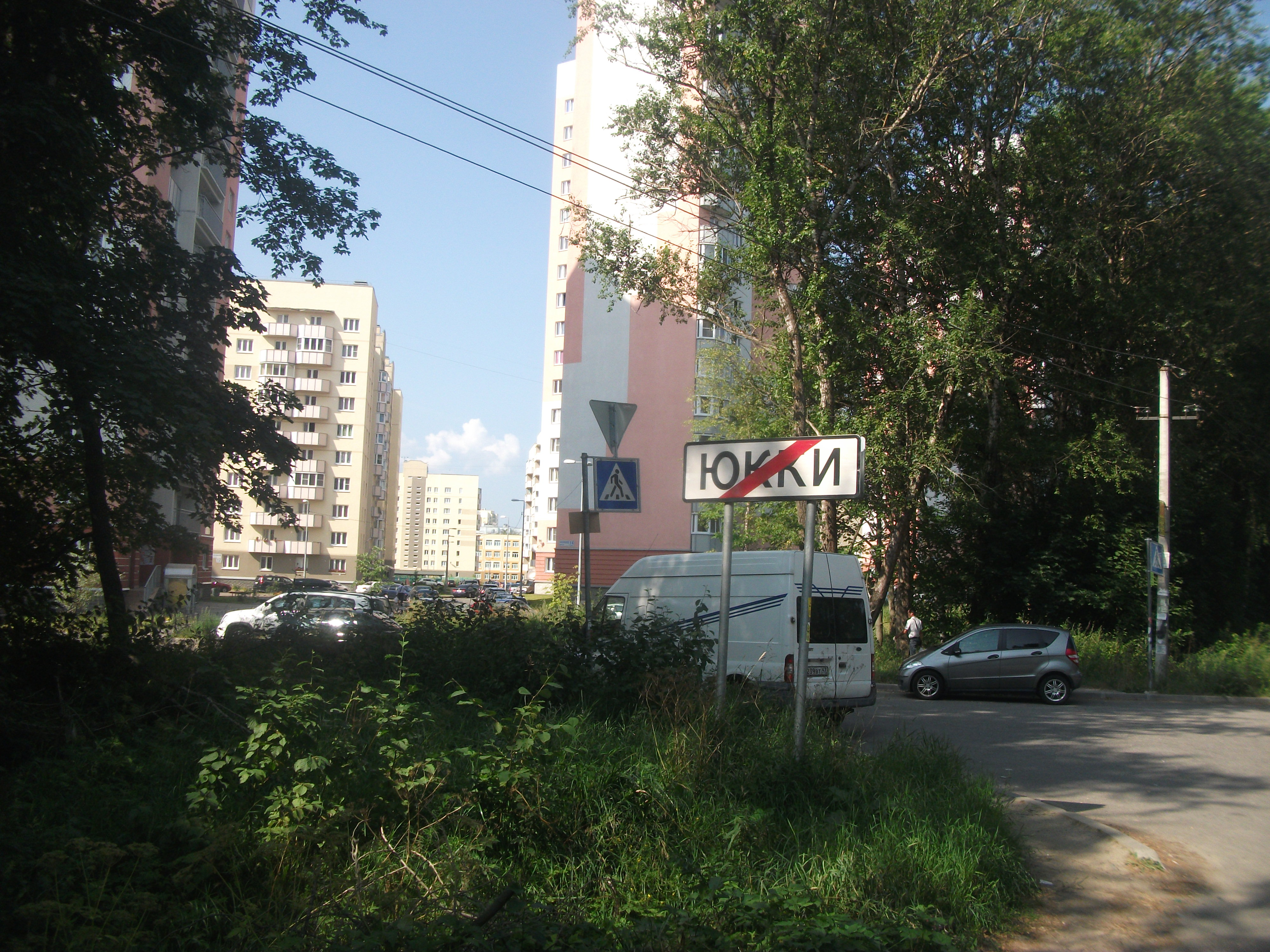 Ykki, exit